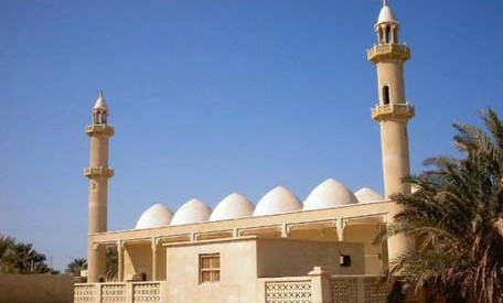 quba mousque